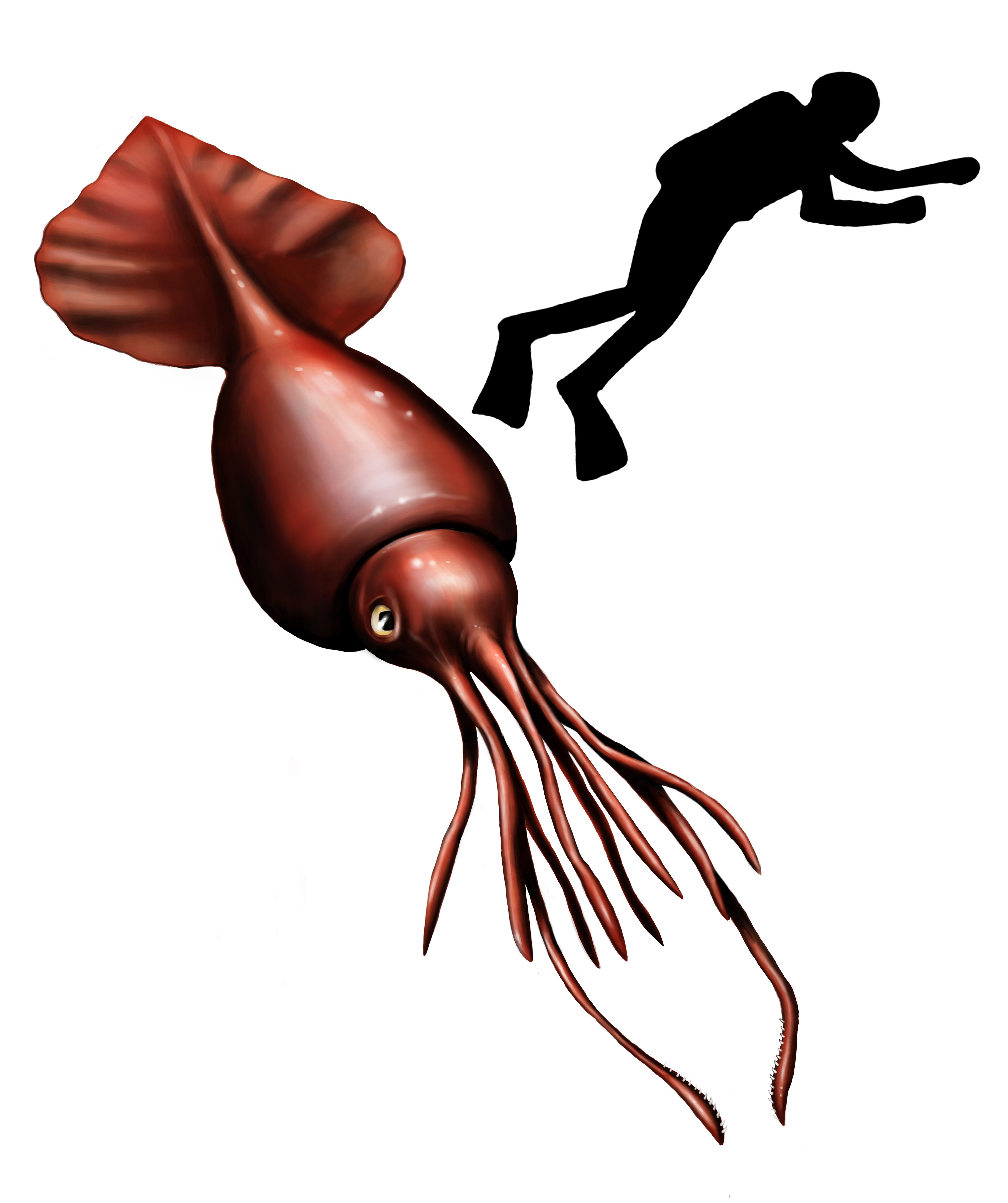 Revised version of the Colossal Squid image for Mesonychoteuthis. Fixed the perspective on the tail and made the human more accurately sized. The mantle is 2.5 meters long. Scaled from photos at Te Papa's site